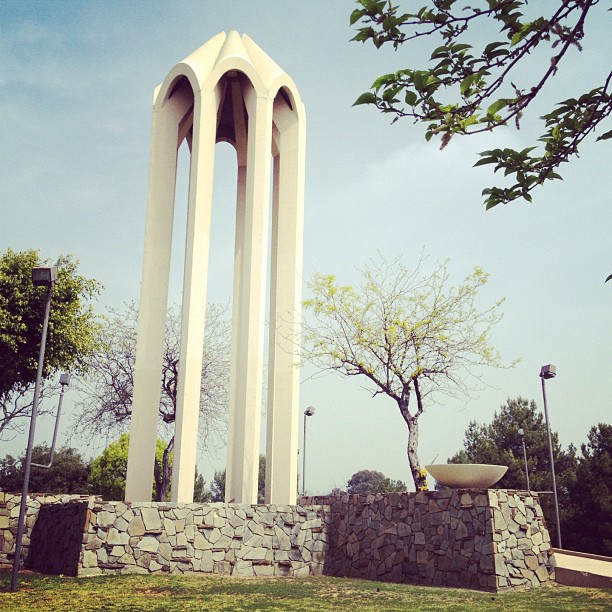 The Montebello Armenian Genocide Memorial